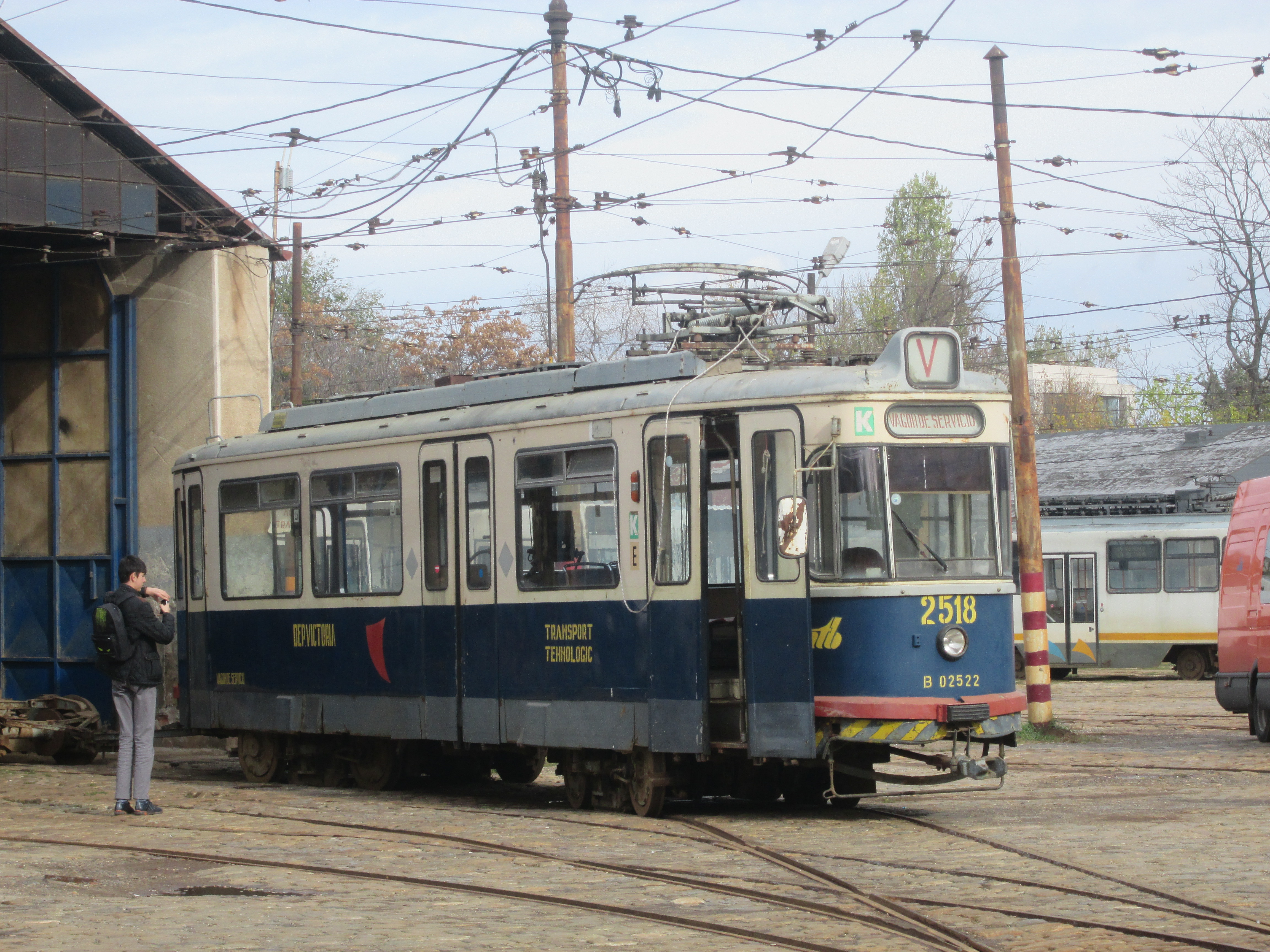 Service car number 2518 (type Rathgeber M.565, brought second hand from Munich) in Victoria tram depot. this was a M class tram car of the MVG, manufactured between 1957 and 1963, brought second hand as a regular tram by RATB in the 1990s and retired in 2007, later transformed into a service car.